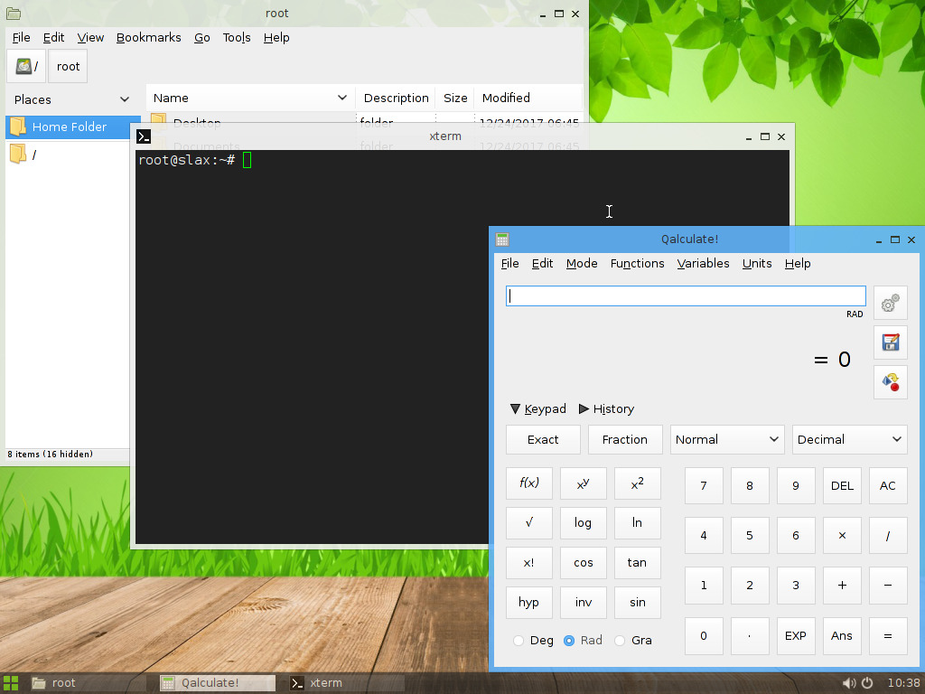 Slax 9.3.0 preview